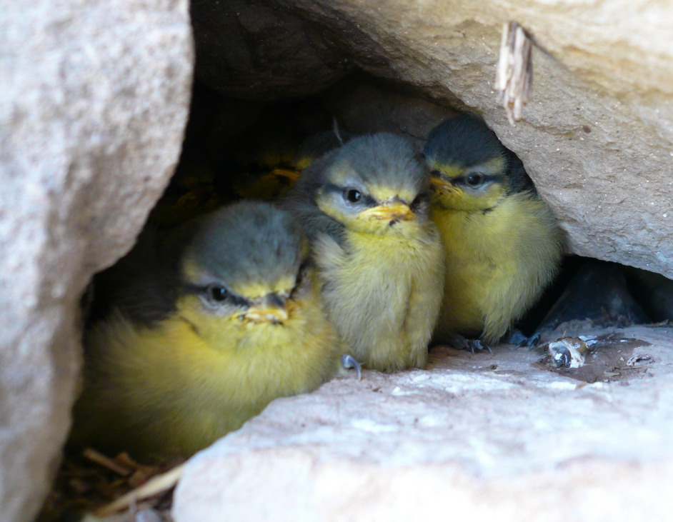 Young Parus caeruleus in nest. Olost (Osona, Catalonia)